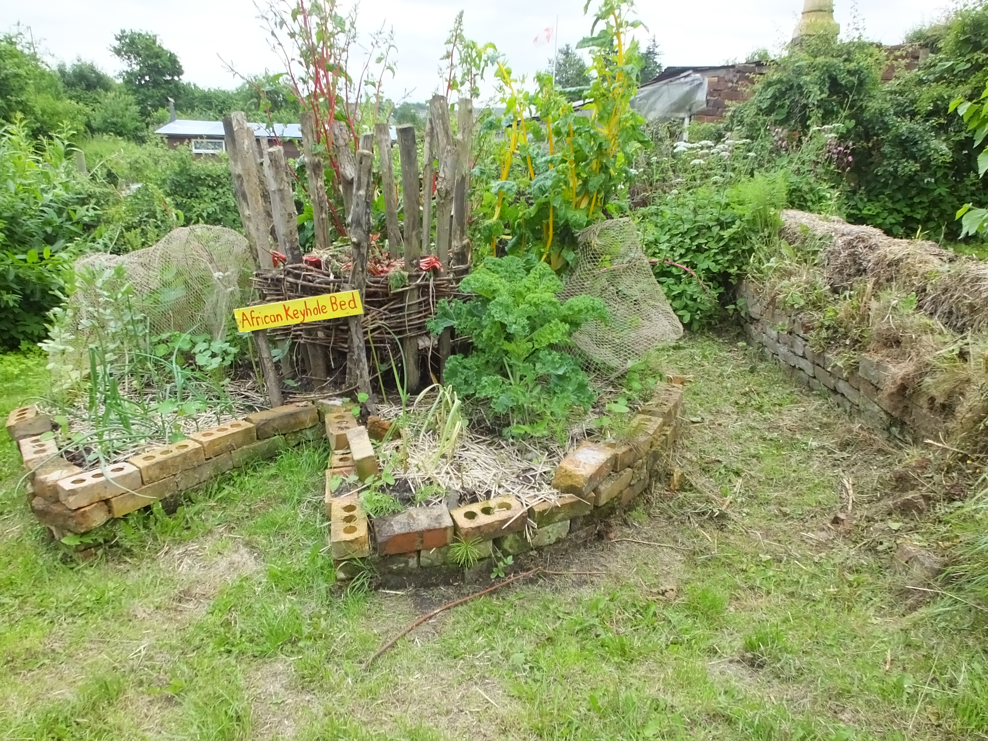 St Ann's Community Orchard, Nottingham, is part of the St Ann's allotments (geotags approximate! ) In the orchard is an African keyhole bed